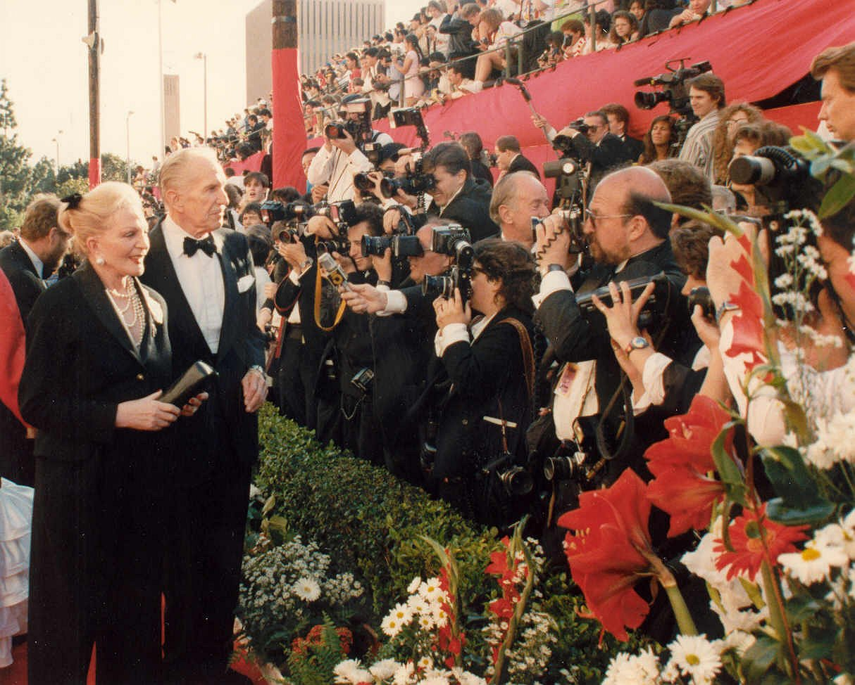 Vincent Price and his wife Coral Browne on the red carpet at the 1989 Academy Awards.